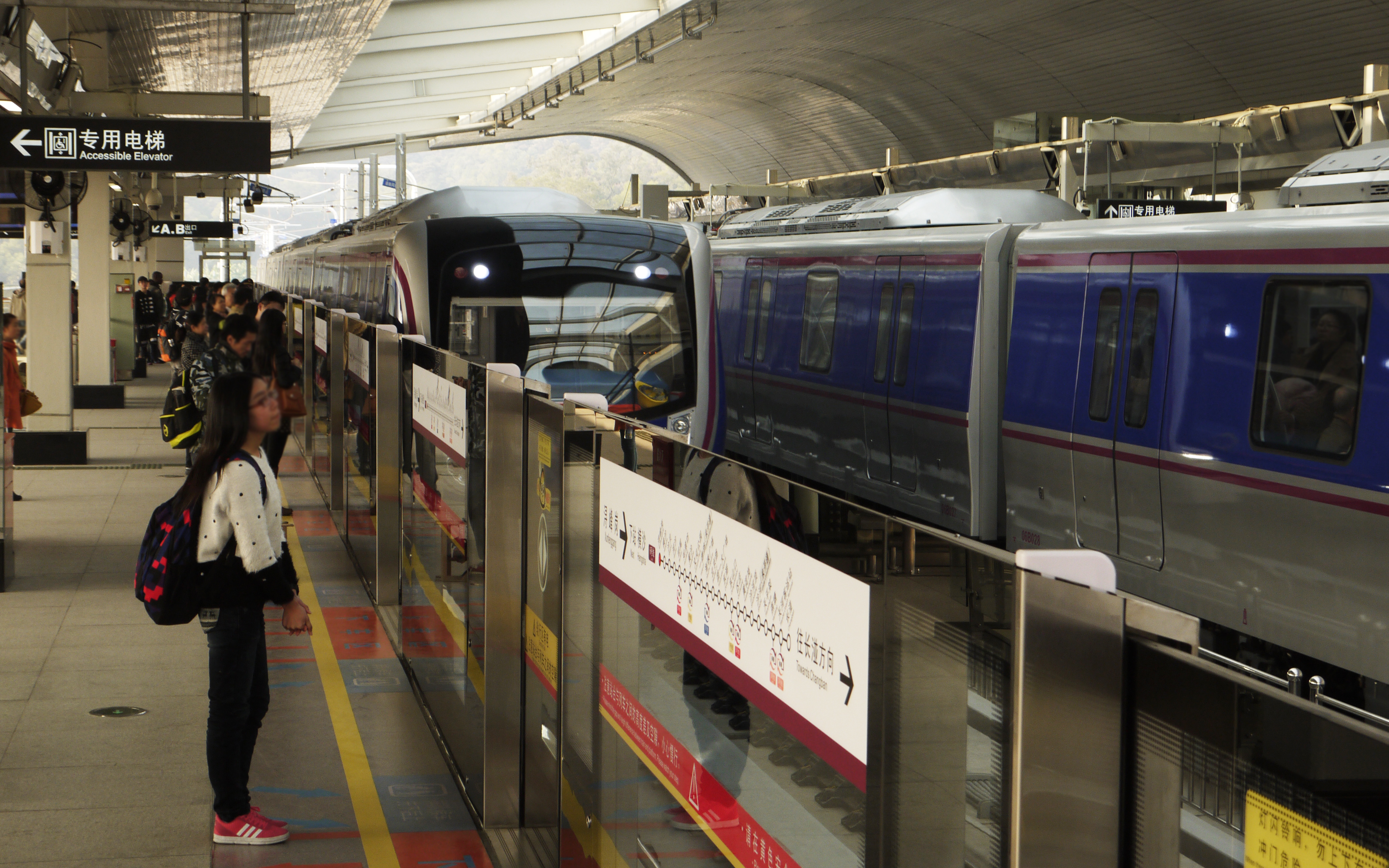 XUN FENG GANG STA.